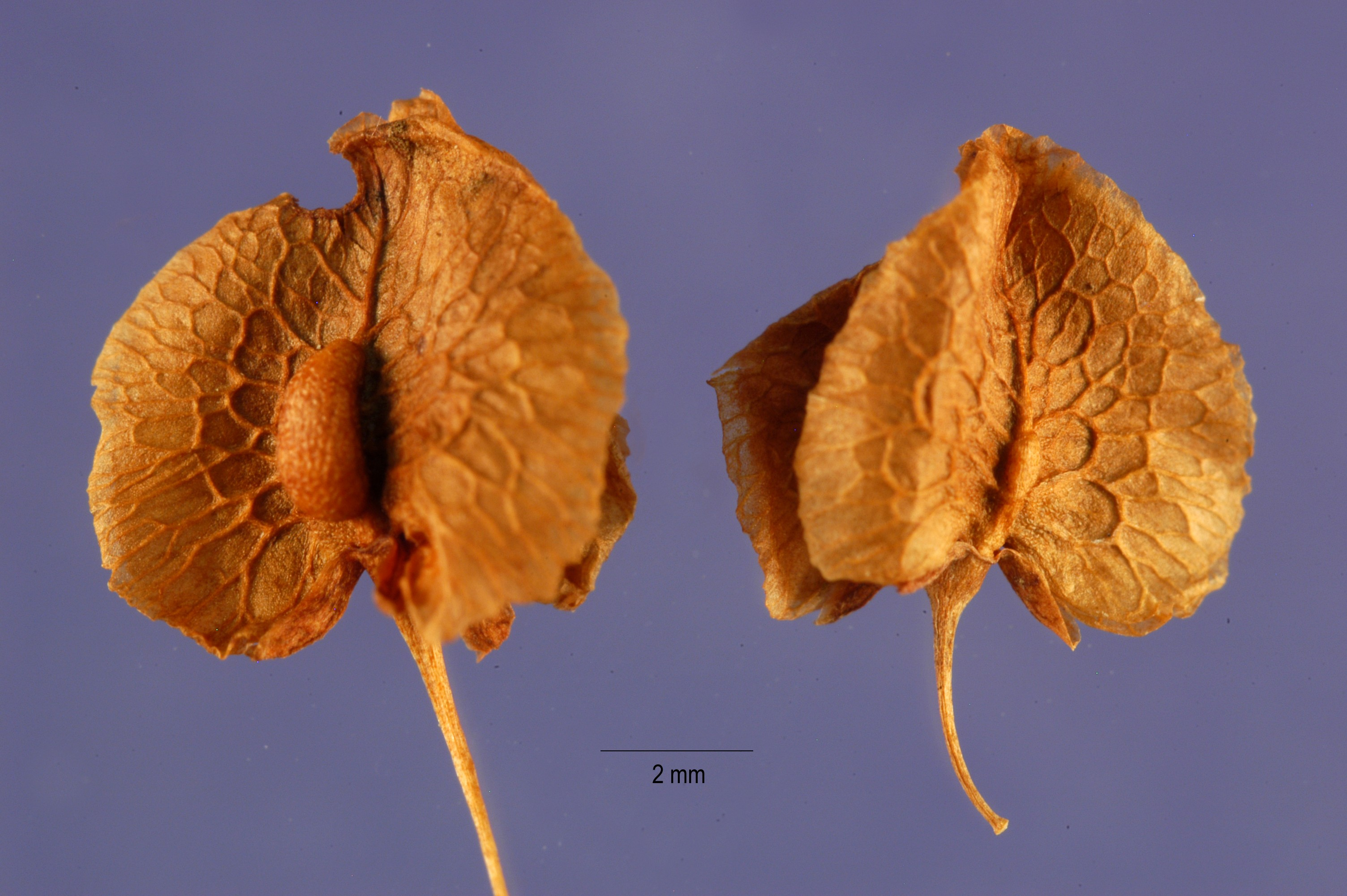 Rumex_patientia fruits